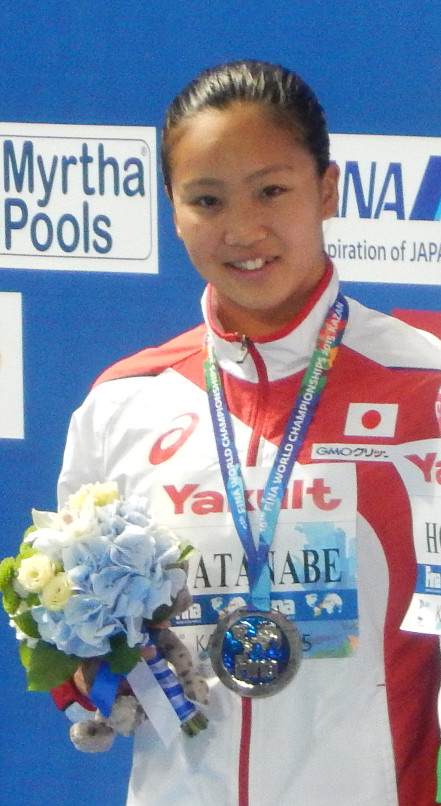 Medallists at the women's 200 metres IM in Kazan 2015